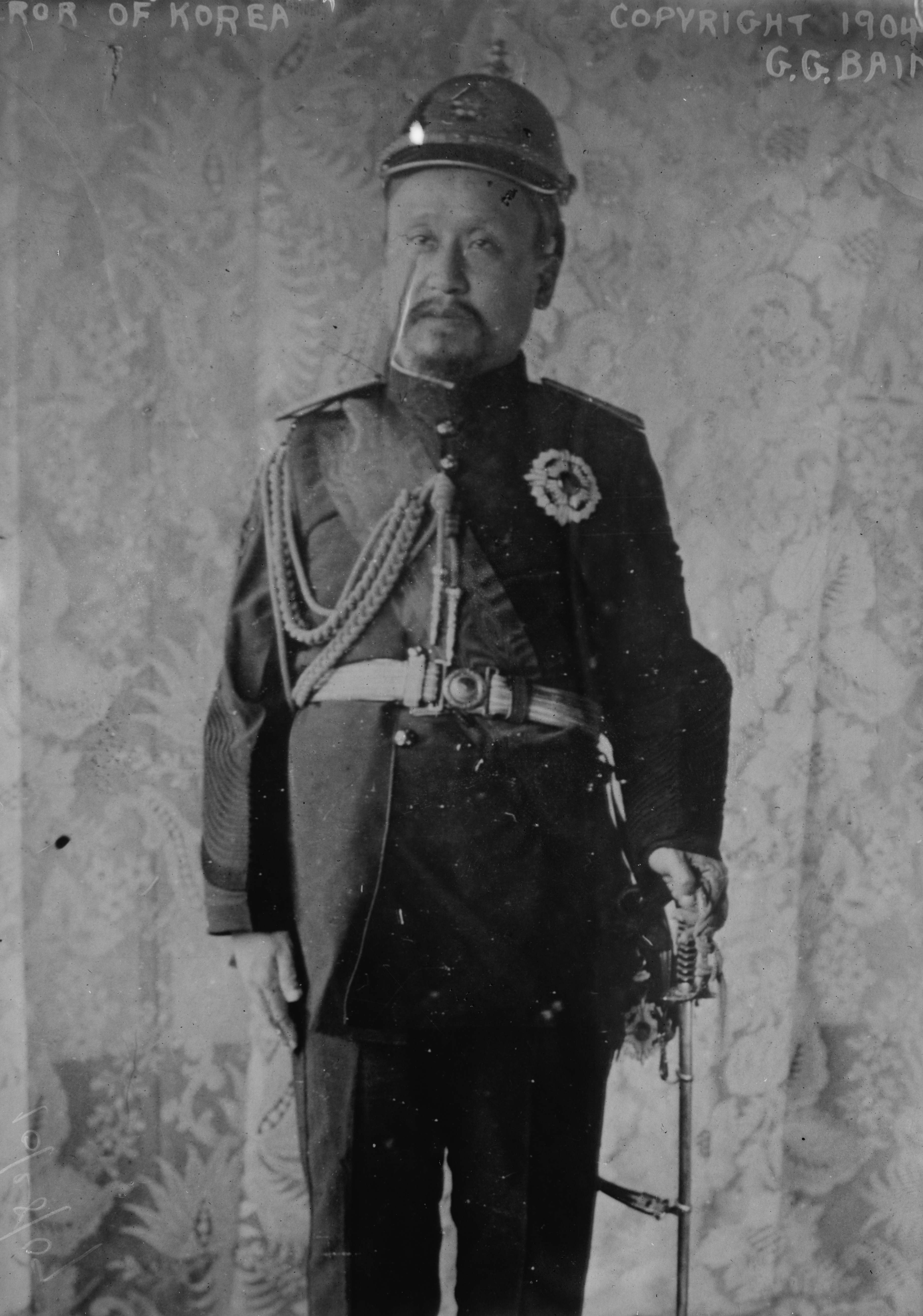 Gojong, the Gwangmu Emperor (1852–1919), the twenty-sixth king of the Korean Joseon Dynasty and the first emperor of the Korean Empire